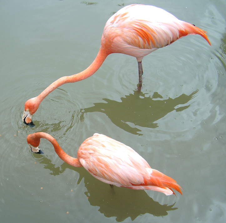 Two Caribbean flamingos feeding on the same spot. Taken at SeaWorld California with an Olympus FE-115.